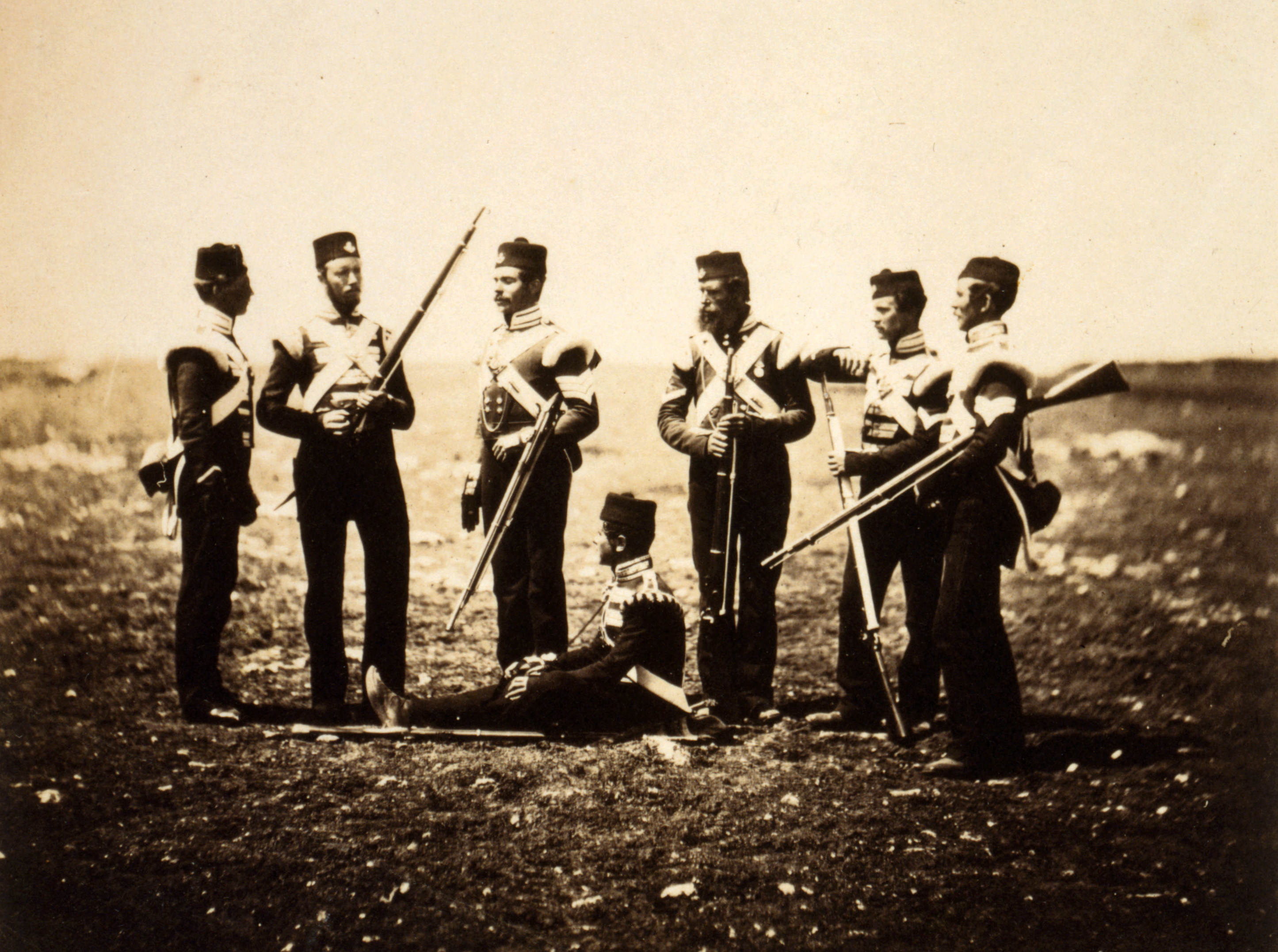 Men of the 68th (Durham) Regiment of Foot (Light Infantry) in ordinary dress